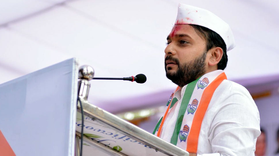 Picture of Indian politician Vishwajeet Kadam